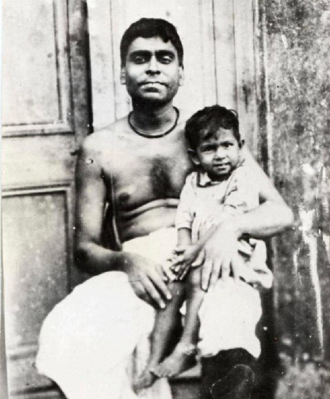 Kedarnath Datta, or Bhaktivinoda Thakur, the father of Bhaktisiddhanta Sarasvati, with a child ca. 1870.